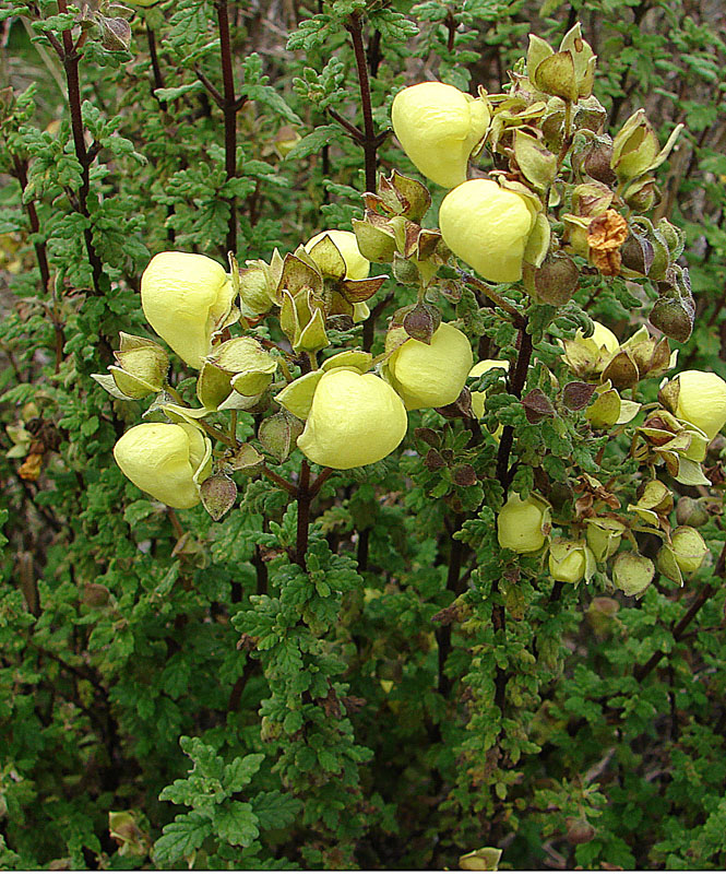 Part of the subalpine foliage of Peru. In context at